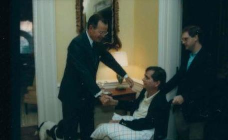 PRESIDENT AND MRS. BUSH VISIT WITH LEE ATWATER ALONG WITH GOV. SUNUNU, GEORGE W. BUSH, DORO LEBLOND AND MARVIN BUSH IN THE WEST SITTING ROOM. ATWATER VISITS THE OVAL OFFICE WHERE HE IS GREETED BY GEN. SCOWCROFT, ROBERT GATES, VP QUAYLE. GEORGE W. AND MARVIN BUSH ARE PRESENT.